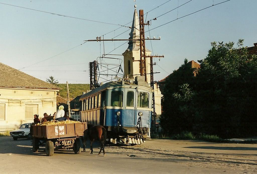 The tram "The Green Arrow" in Ghioroc